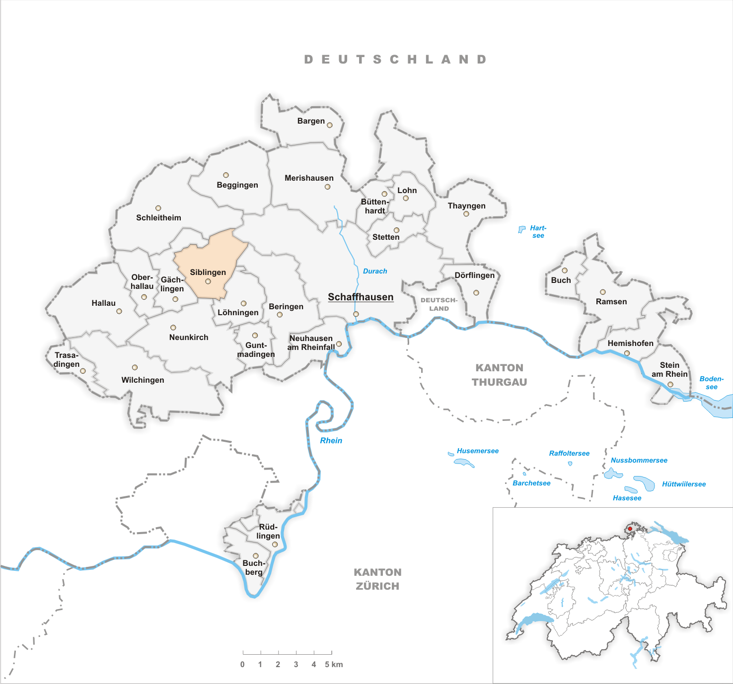 Municipality Siblingen